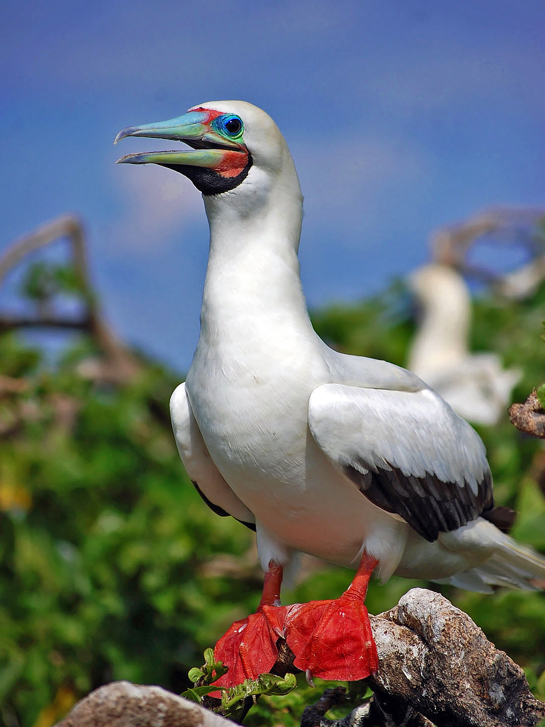 A Red-footed Booby (Sula sula) in its typical white color morph at the Tubbataha Reef National Park in the Philippines. Photographed in 2012 by Gregg Yan.